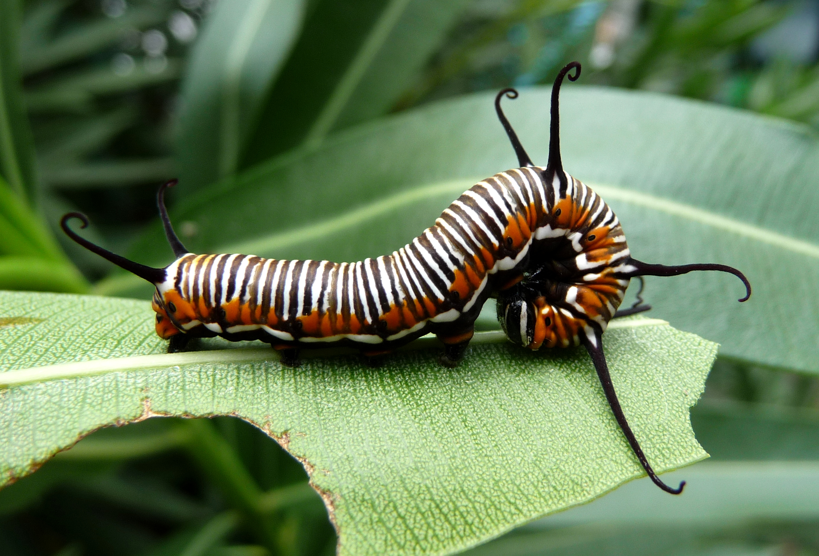 Caterpillar of a Common Australian Crow (Euploea corinna), photo taken in Brisbane, Queensland, Australia.